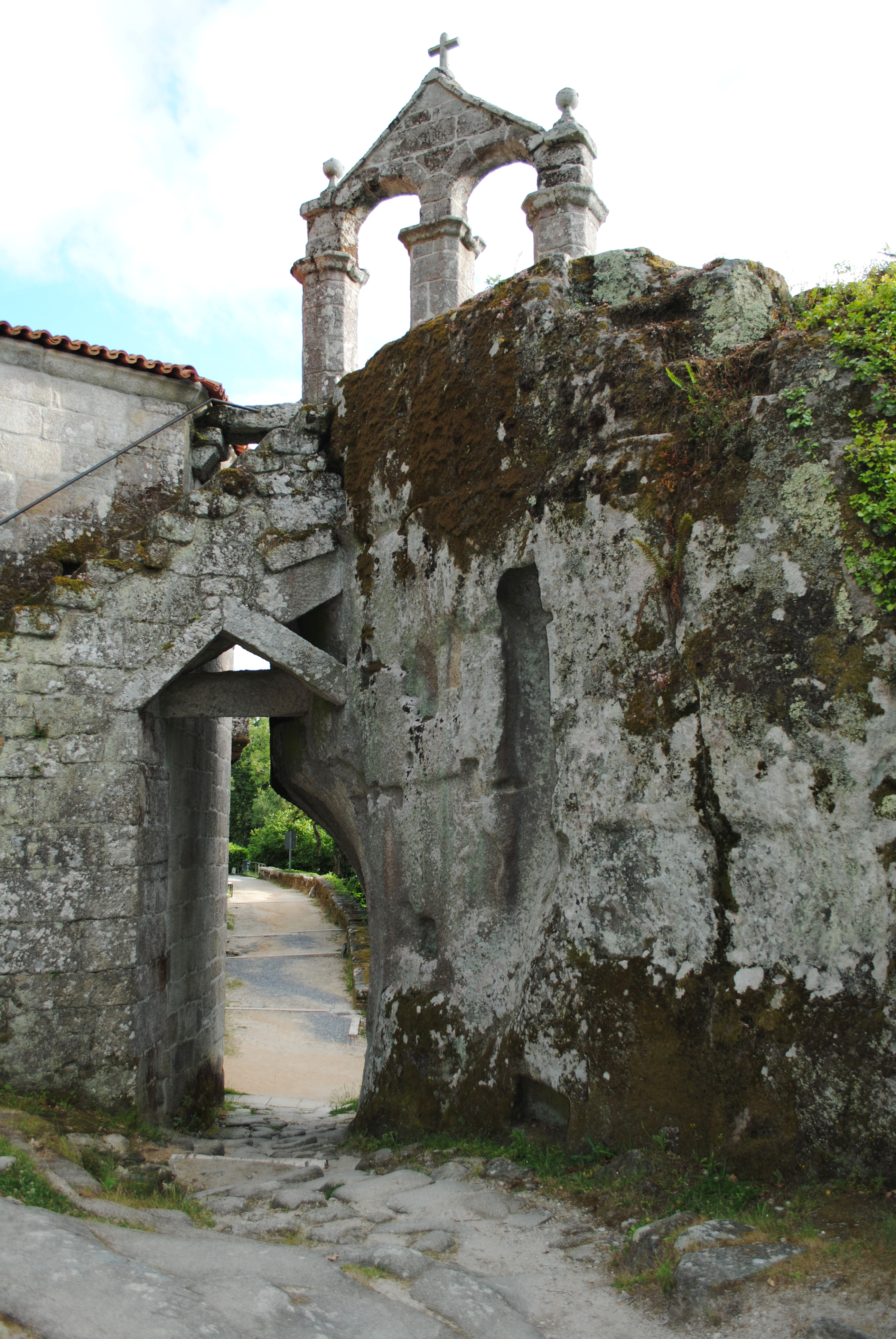 See title